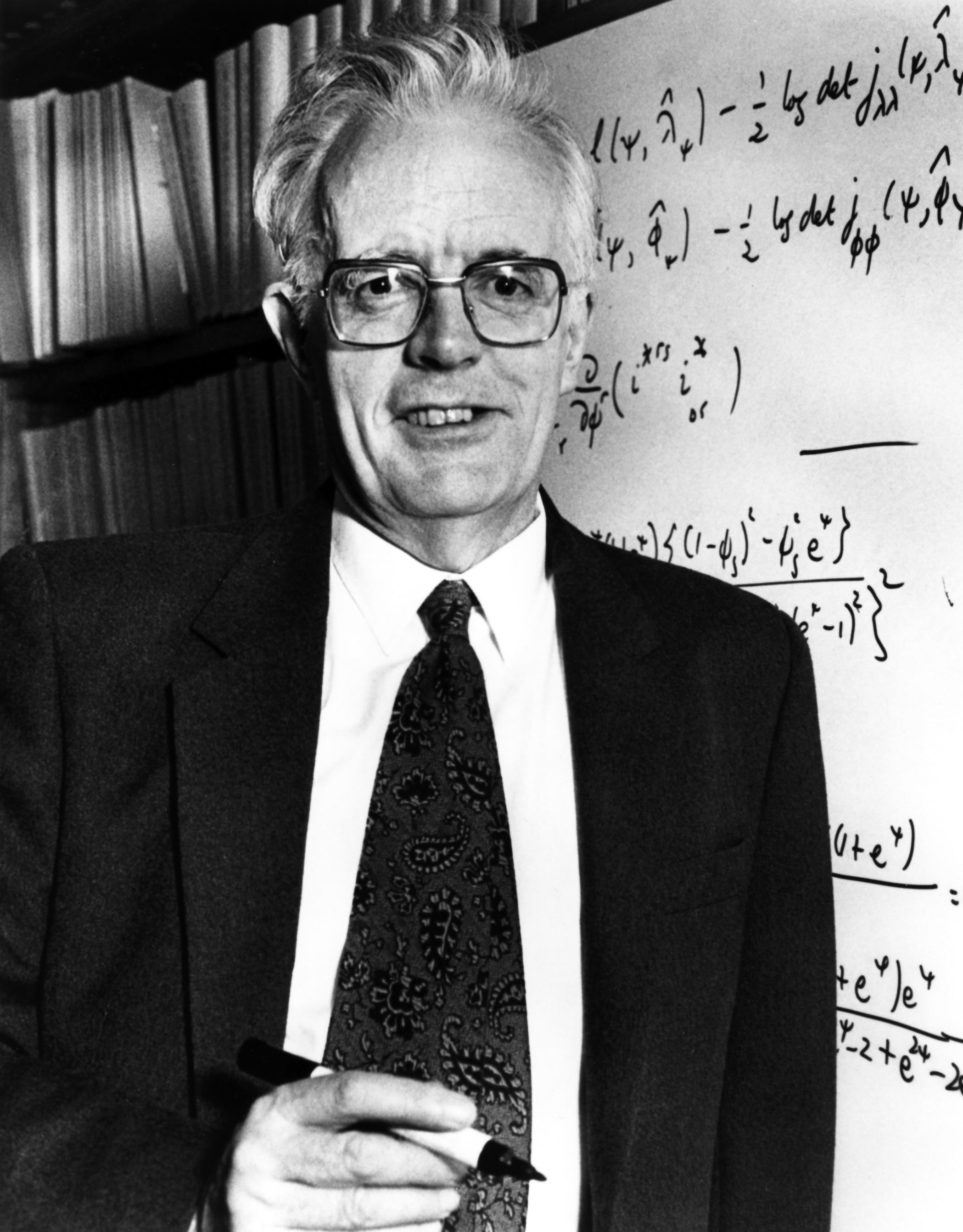 Title: Historical Portrait: Sir David Cox Description: Portrait of Sir David Cox. Subjects (names): Cox, David Topics/Categories: Historical -- People People -- Adult Type: B&W Source: General Motors Cancer Research Foundation Author: Unknown Date Created: 1980 Date Added: 1/11/2010 Reuse Restrictions: None - This image is in the public domain and can be freely reused. Please credit the source and/or author listed above.